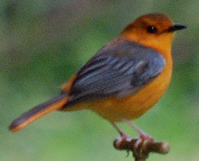 Red-capped Robin-chat (Cossypha natalensis) perched on a tap